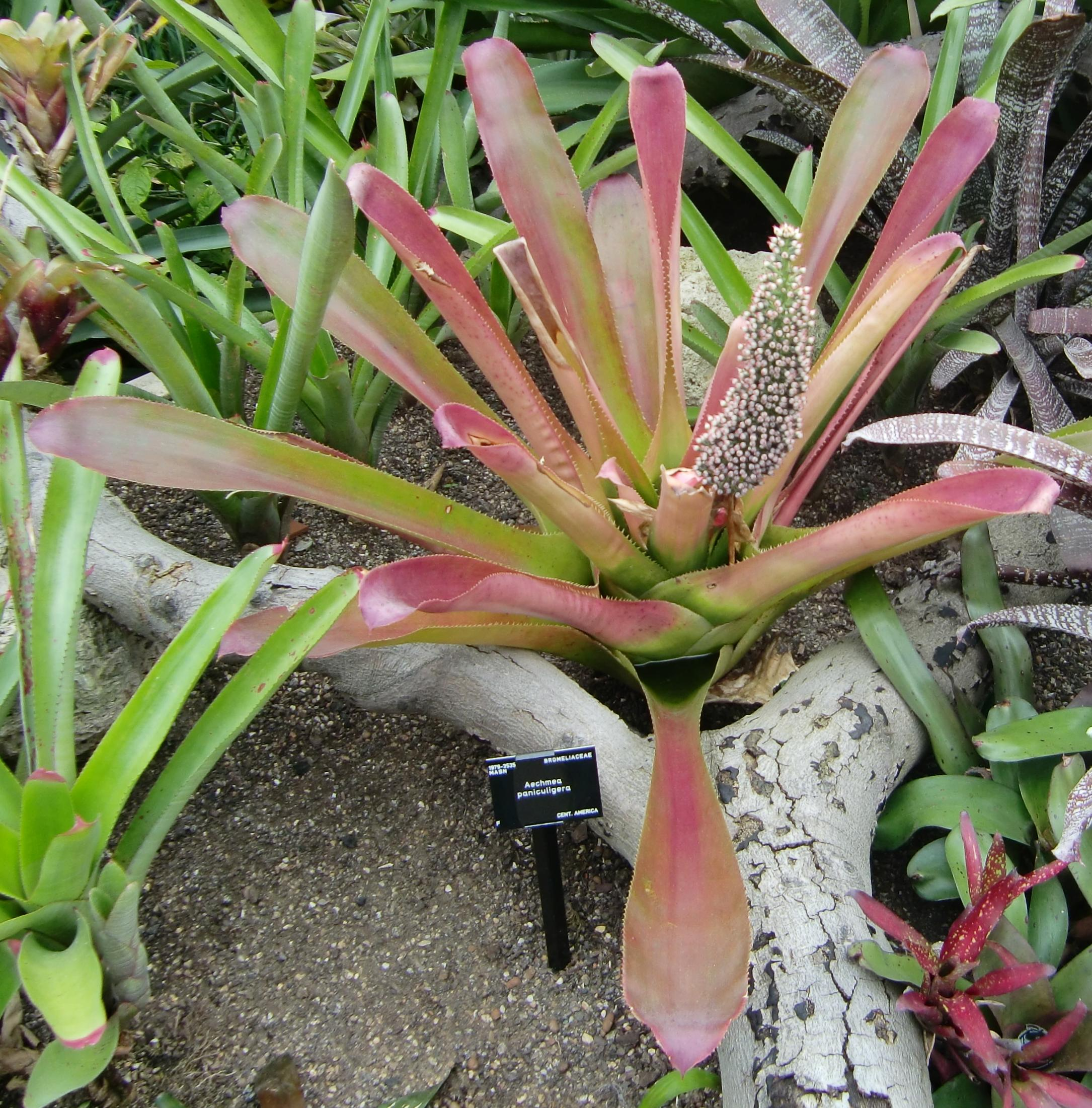 Aechmea paniculigera growing at Kew Gardens